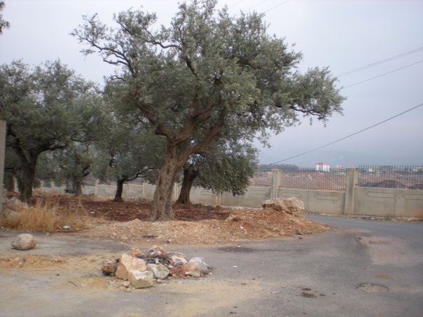 Olive tree in Kaferkahel, North Lebanon.